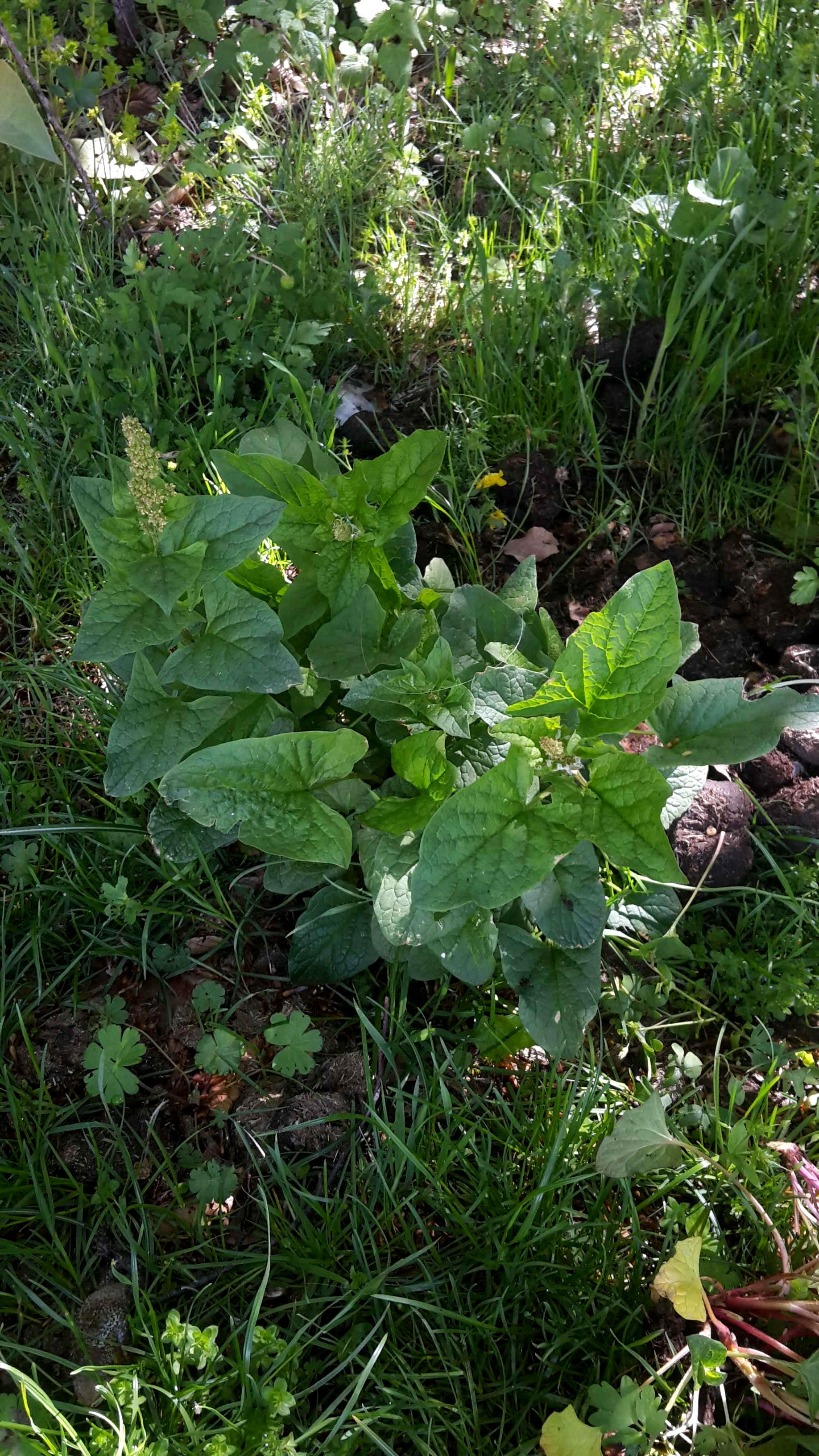 Orapi from Pizzo Deta